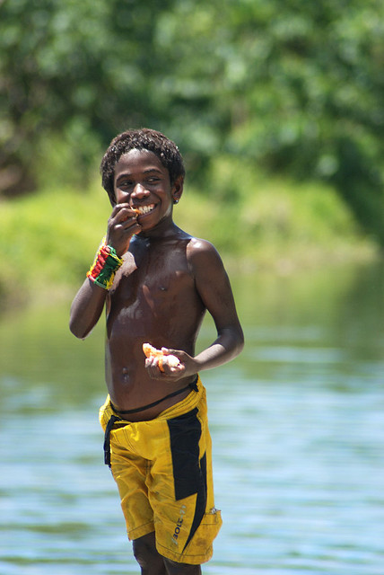 ... or papaya, or pawpaw. Call it what you like, it still tastes great on a hot summer day.